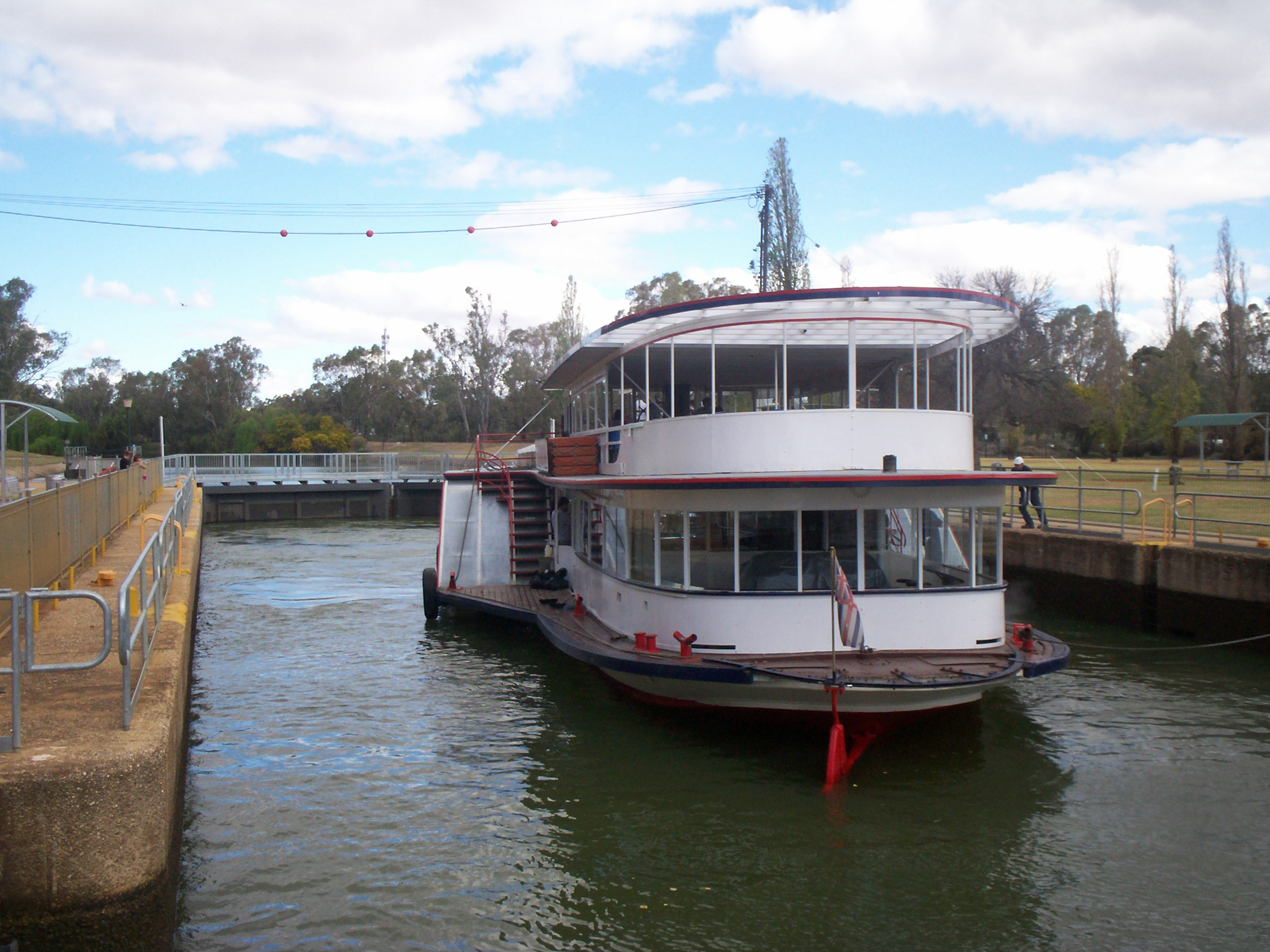 The P.S. Melbourne, passing through Lock 11, Mildura, Victoria, Australia. Photograph taken by myself, September 26, 2007.